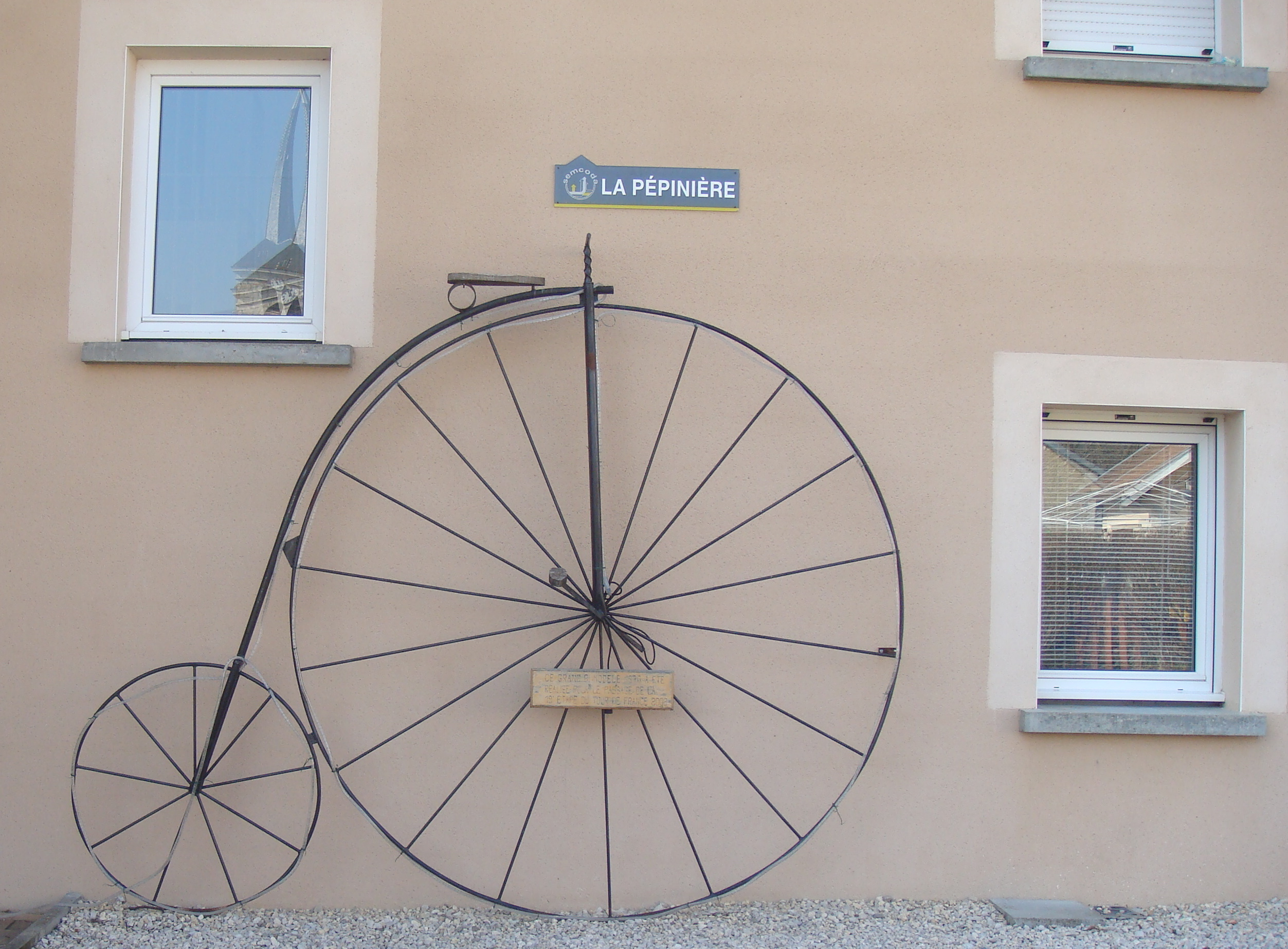 The sign roughly says that this giant bike model of an 1870 bike was realized for the passage of stage 18 of the 2002 Tour de France - Taken in Hotonnes - Jura Mountains, France.